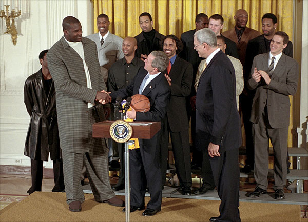 President George W. Bush looks up as he welcomes Shaquille O'Neal and the rest of NBA Champion Los Angeles Lakers in the East Room of the White House. Back: Samaki Walker, Jelani McCoy, Lindsey Hunter, Slava Medvedenko, Mitch Richmond, Robert Horry Front: Kobe Bryant (covered), Shaquille O'Neal, Brian Shaw, George W. Bush, Rick Fox, Phil Jackson, Devean George (covered), Mark Madsen This followed the Lakers' 2001 NBA championship.